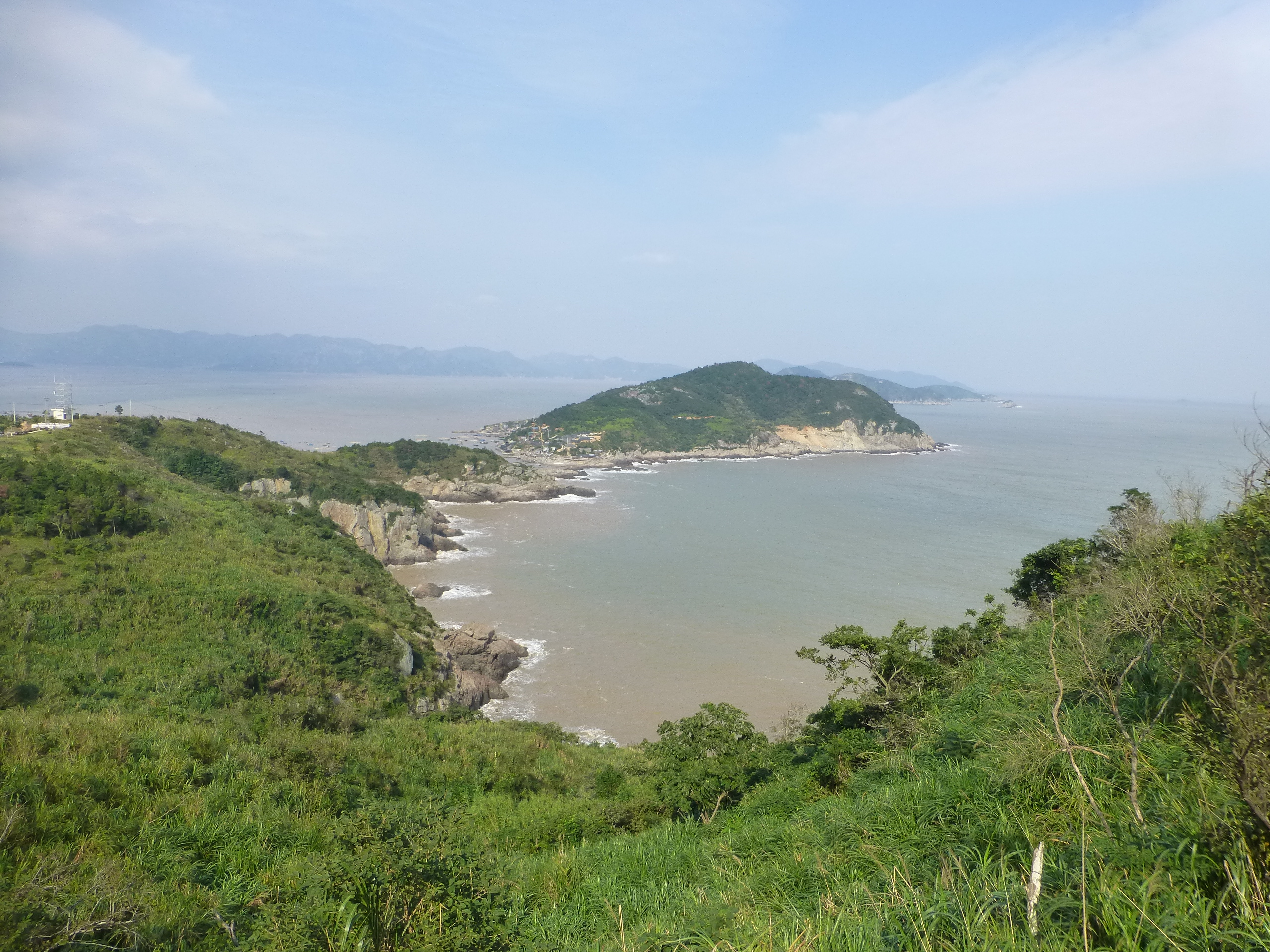 Damen Shan (大门山), a peninsula in Dayu Bay connected with the mainland by a very narrow and low isthmus (which may be covered with water in high tide) . Chixi Town, Cangnan County, Zhejiang, China.